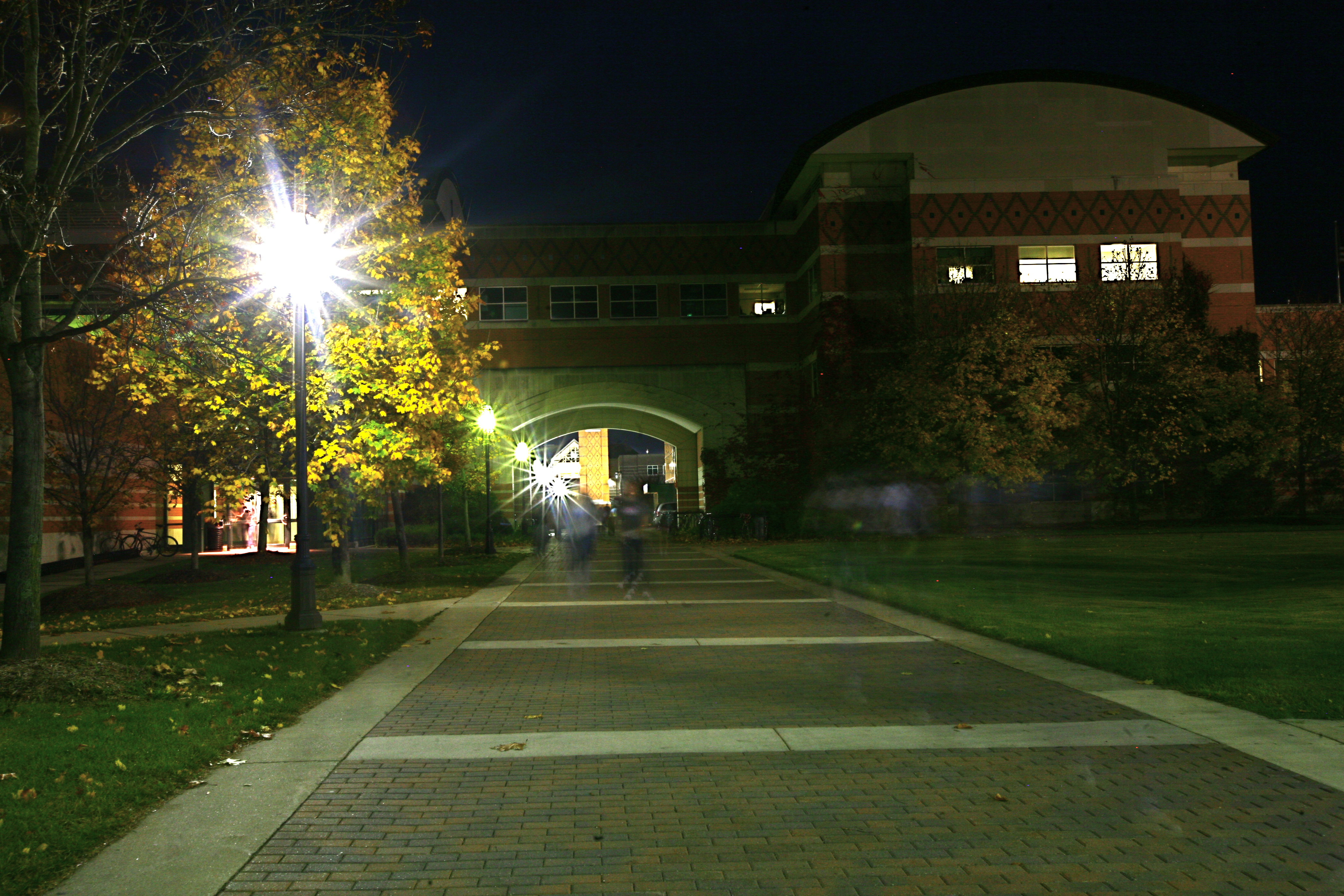 The Henry Hall arch at Grand Valley State University-Allendale campus at night.